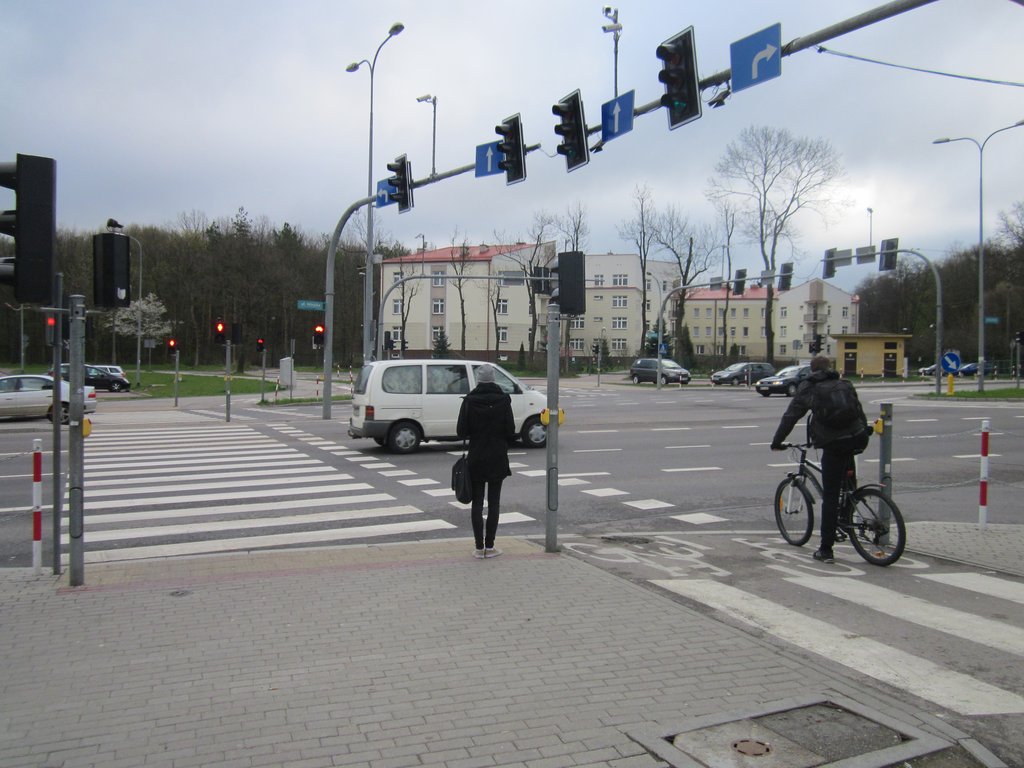 Bikeways in Białystok (Świerkowa street)